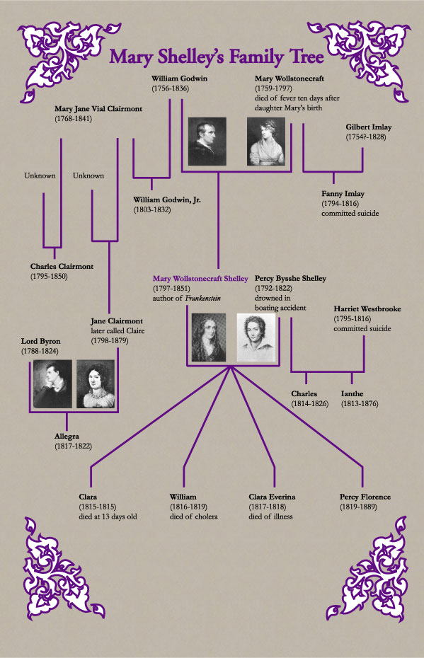 Mary Shelleys Family Tree